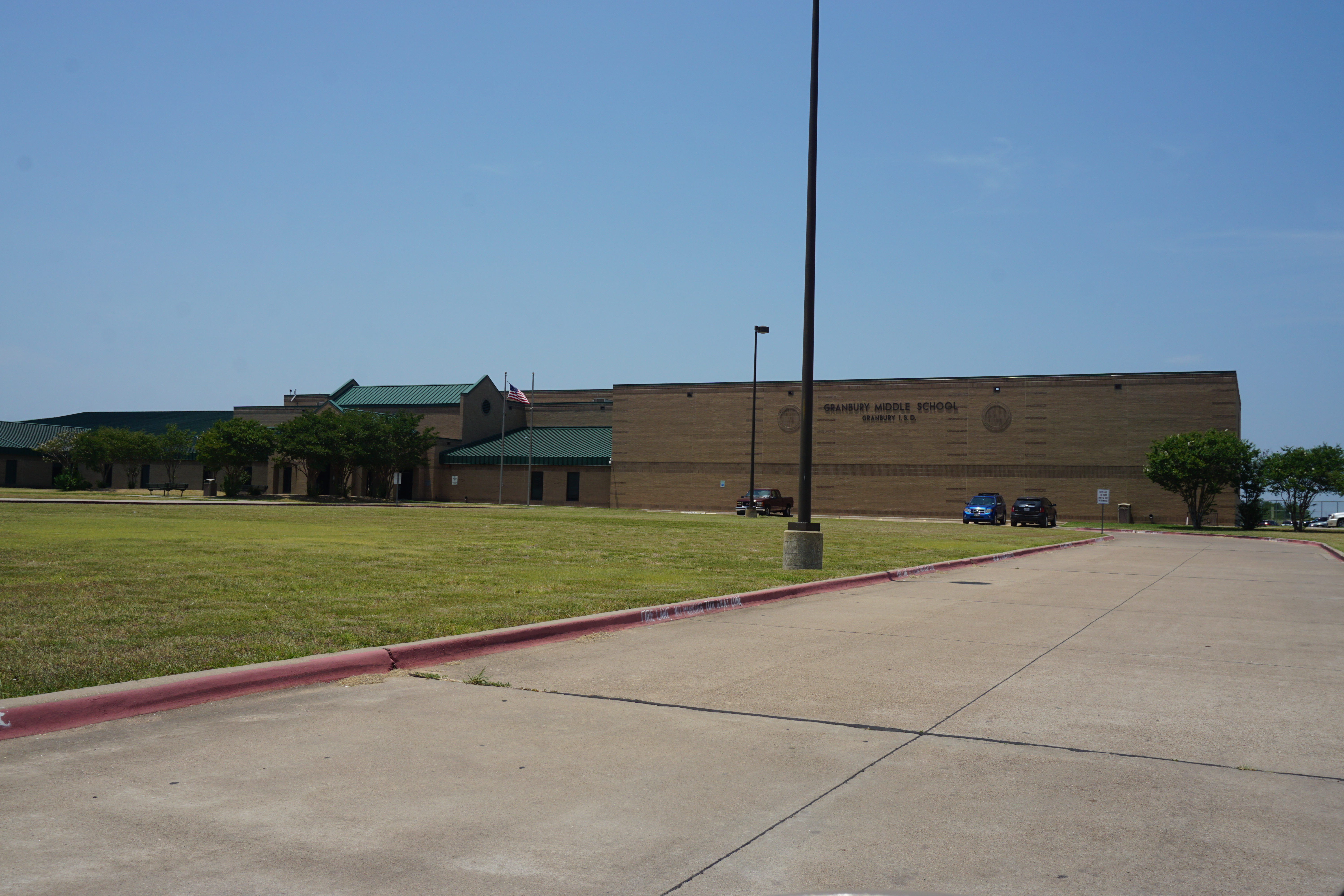 Granbury Middle School in Granbury, Texas (United States).